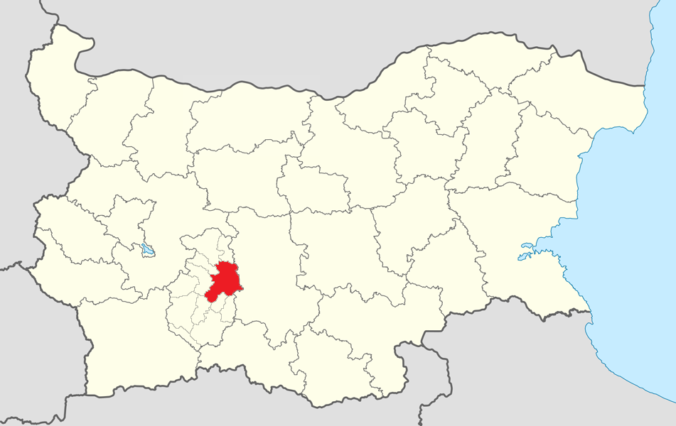 Location map of Pazardzik Municipality within Bulgaria and Pazardzik province